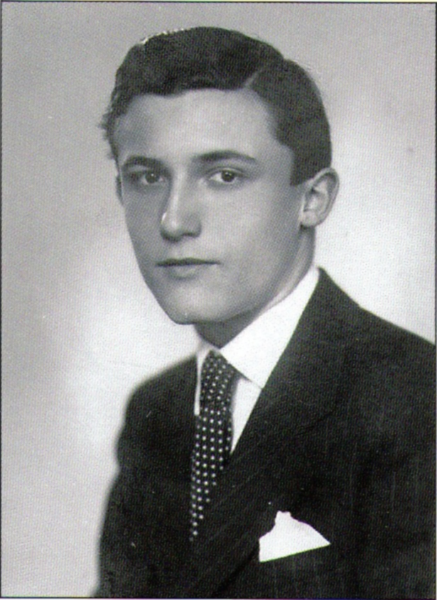 Pilinszky's class composite photo